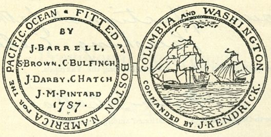 Medal struck on the occasion of the pacific expedition of the ship Columbia in 1787. See also this.